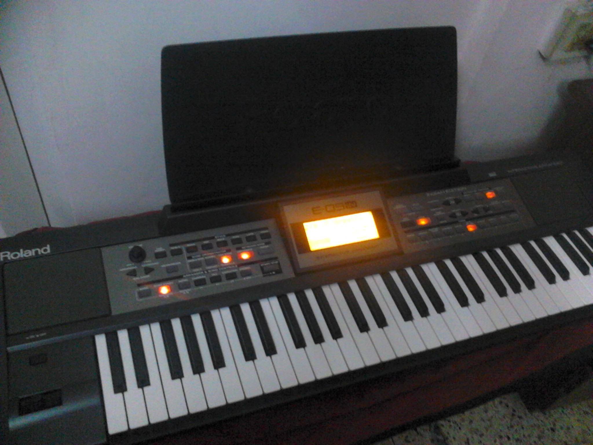 Roland E09 keyboard